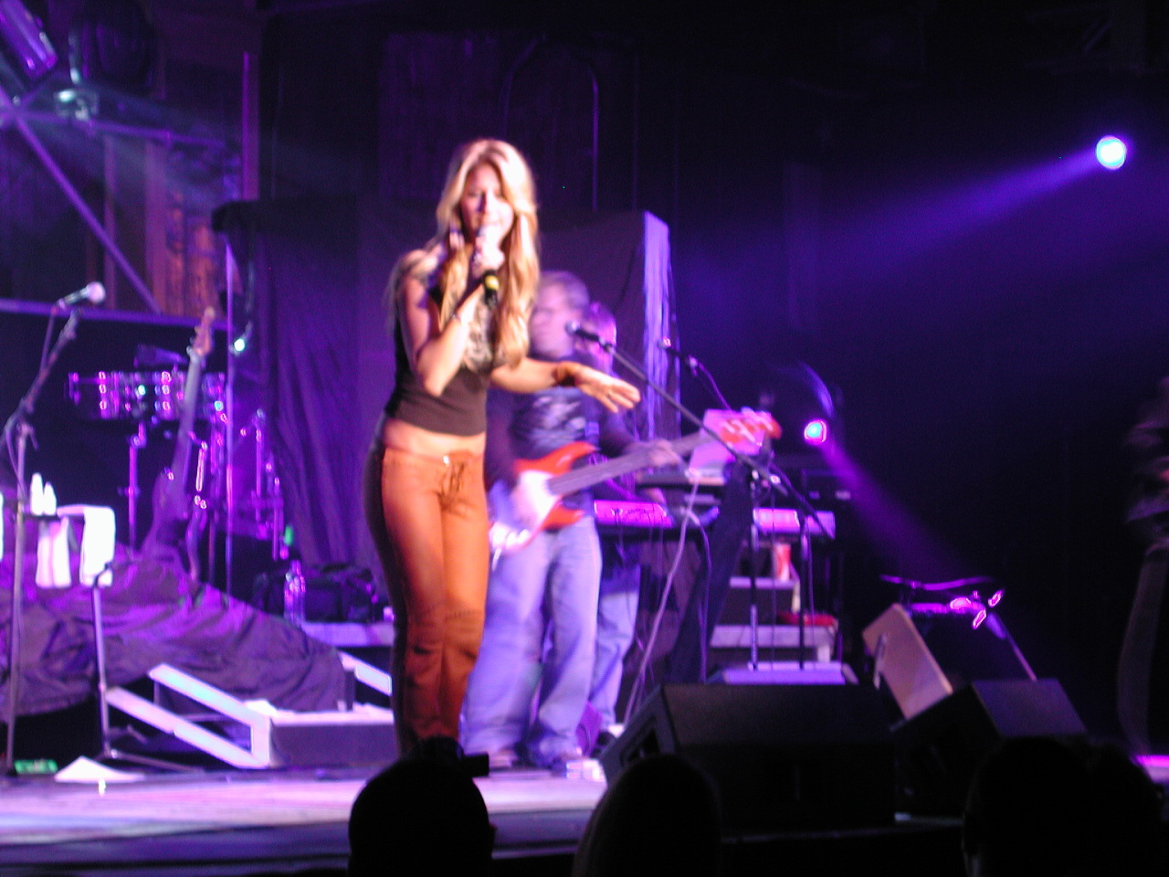 Shannon Leigh Brown, born in July 23, 1973, is an American country music singer from Spirit Lake, Iowa. A member of the MuzikMafia, she has released one studio album to date, and has charted four singles on the Billboard Hot Country Songs charts; two additional albums were recorded but not released. In addition, she has contributed a song to the soundtrack for the 1998 film Happy, Texas. After several years of touring the Midwest with her father running the soundboard and her mom running lights, Shannon decided to make the move to Nashville, Tennessee. She paid the bills singing songwriters' demo sessions and managed to maintain her touring schedule of 180 dates a year. Her vocal stylings and industrious approach did not go unnoticed. She is married to video director Shaun Silva who directed the video for "Corn Fed."